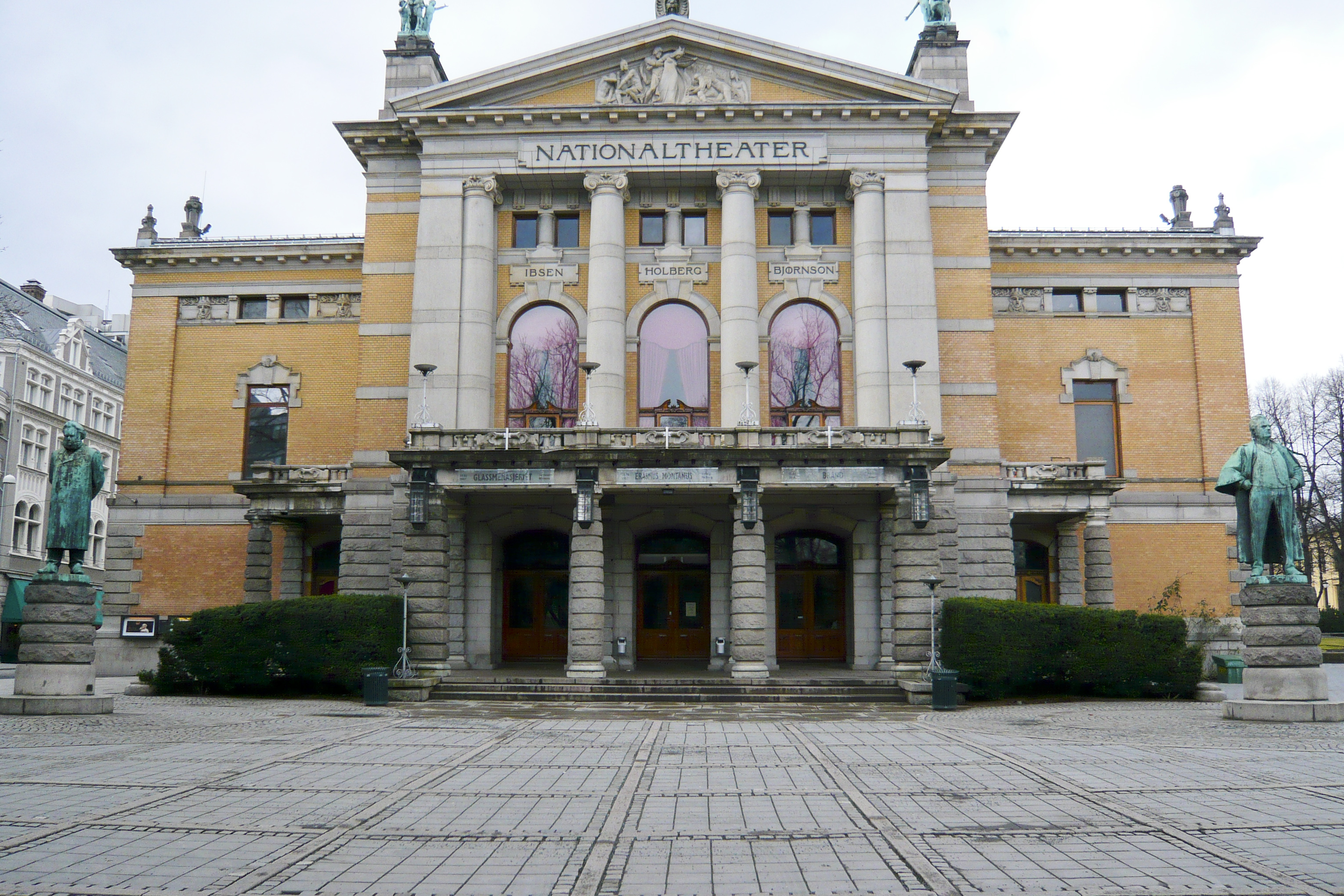 National Theatre